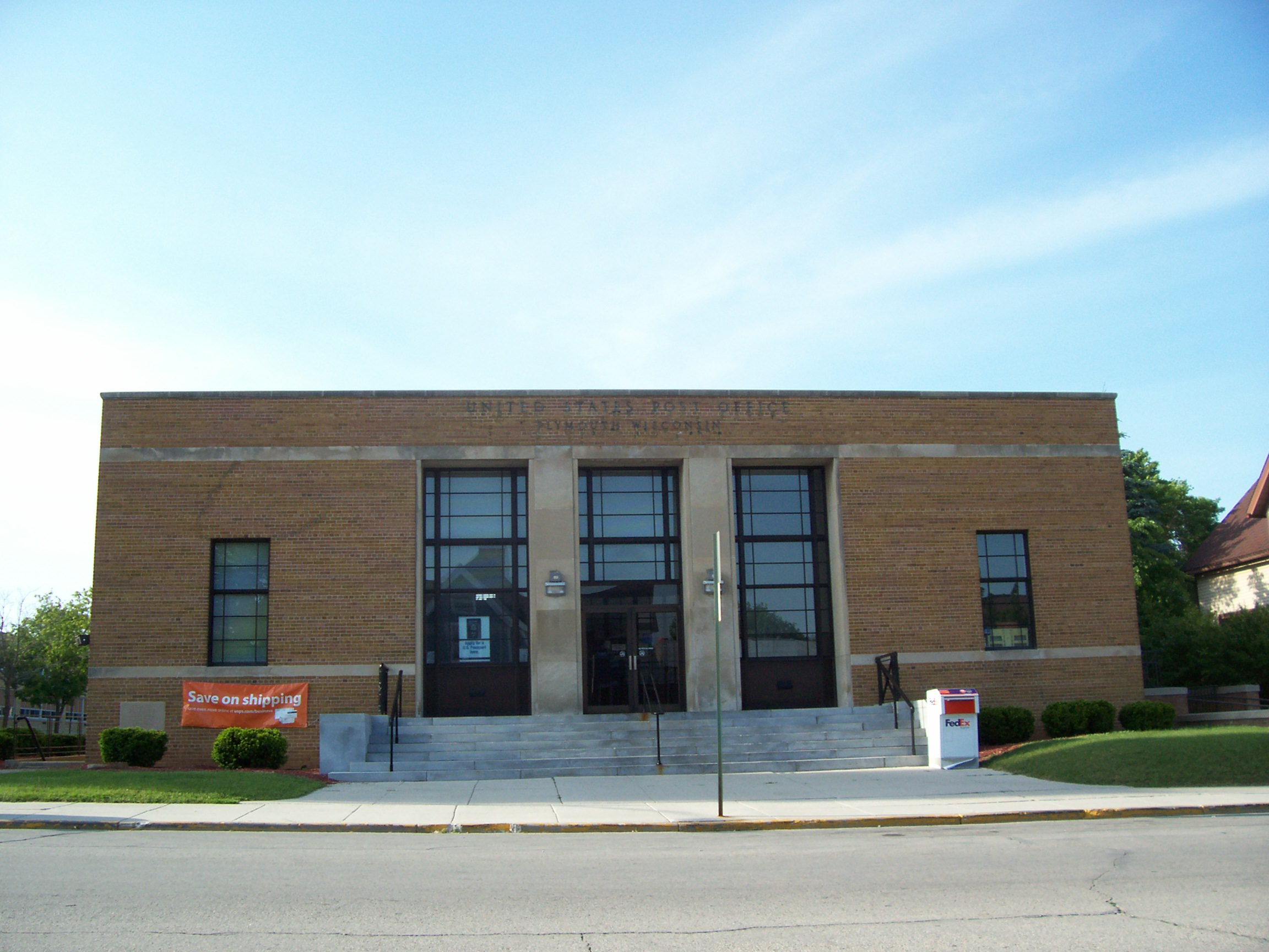 The post office for Plymouth, Wisconsin, a registered historic place.